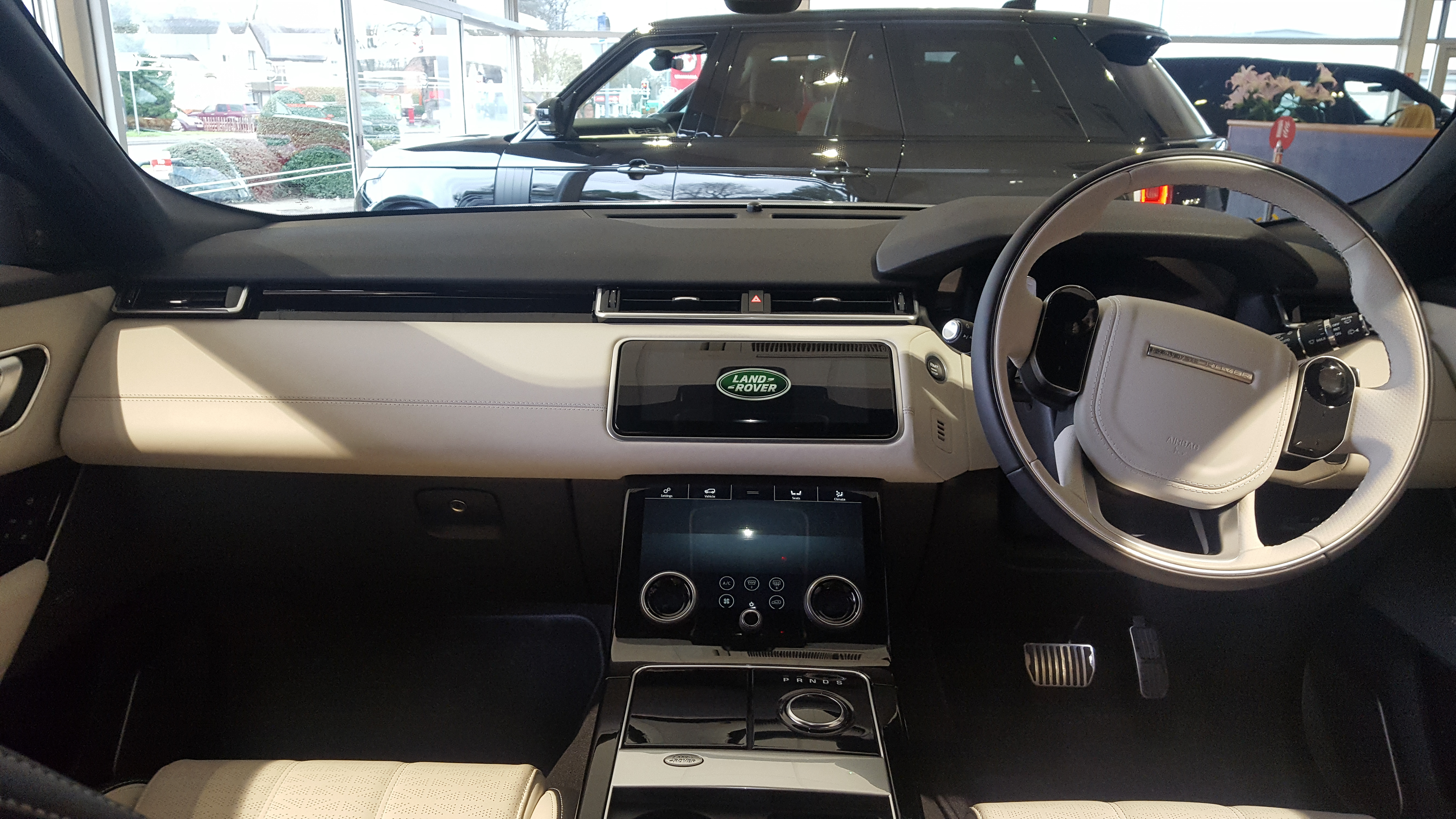 2018 Land Rover Range Rover Velar D180 HSE Interior Taken in Stratford-upon-Avon